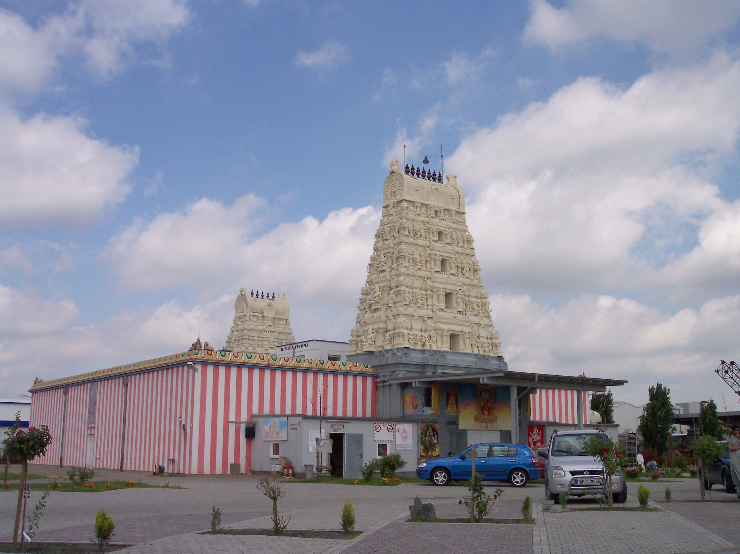 Sri Kamakshi Ambal-Temple